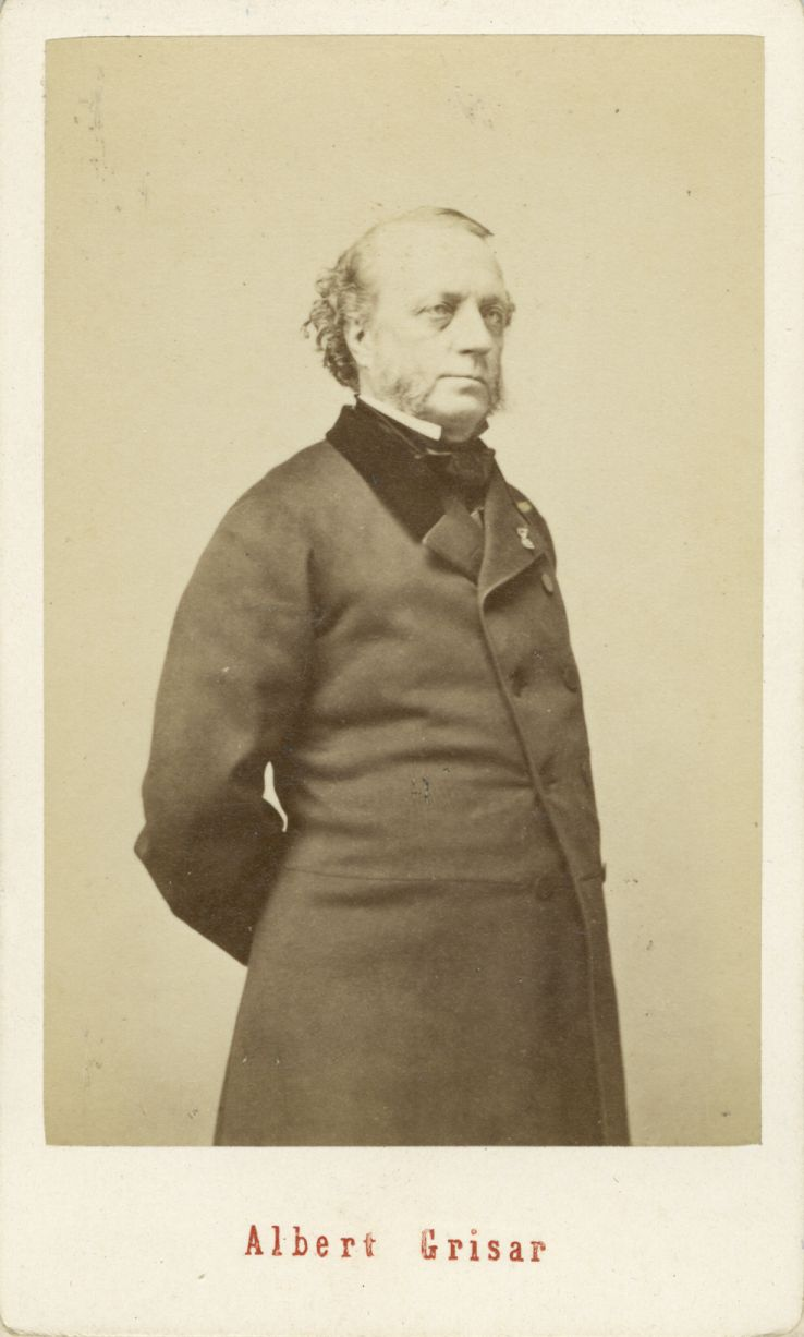 Subject: Albert Grisar Notes: Belgium composer. Born in Antwerpen 26.12. 1808 - dead in Asnières 15.06. 1869